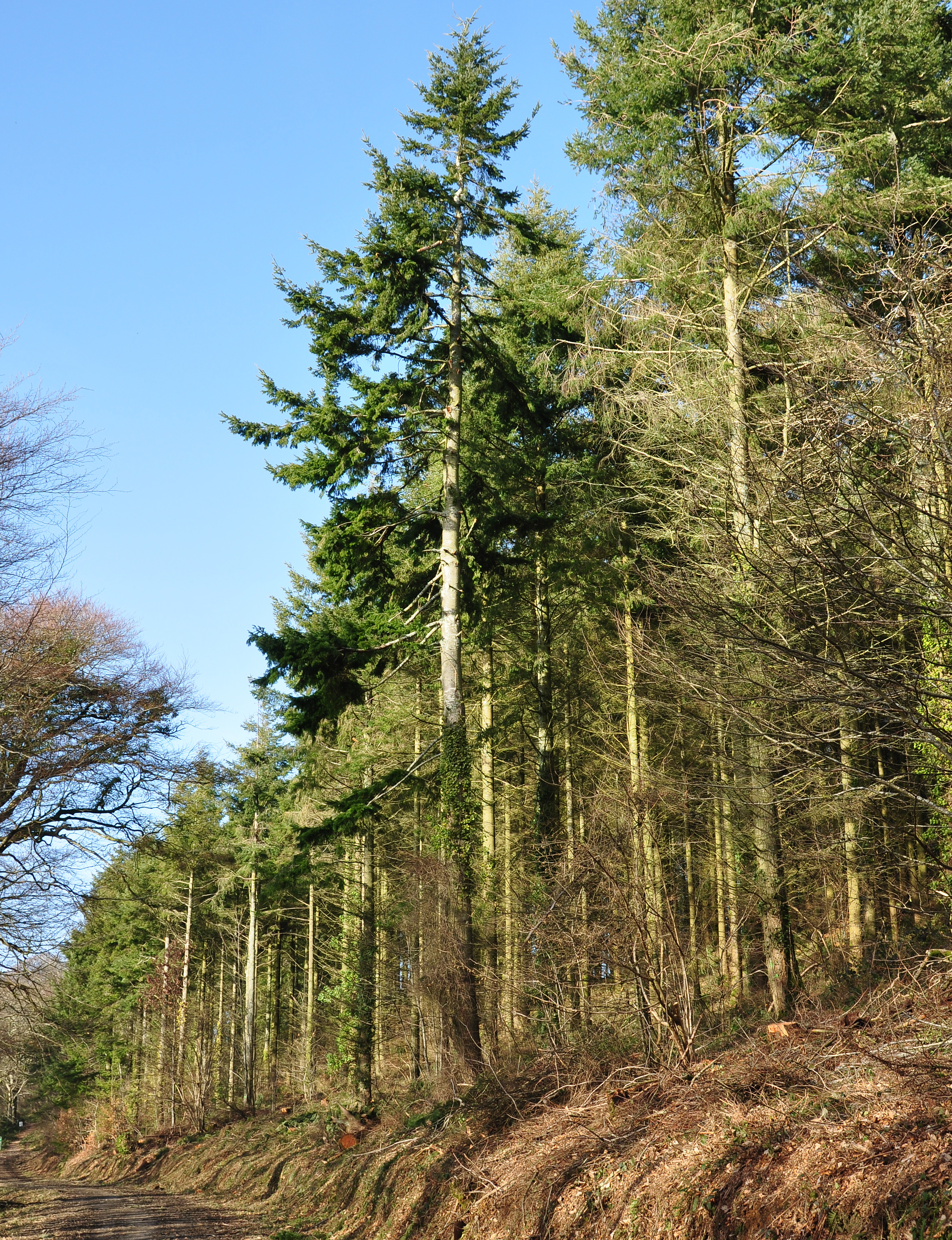 Some of the conifers in the Forestry Commission-owned Ethy Wood, near St Winnow, Cornwall.